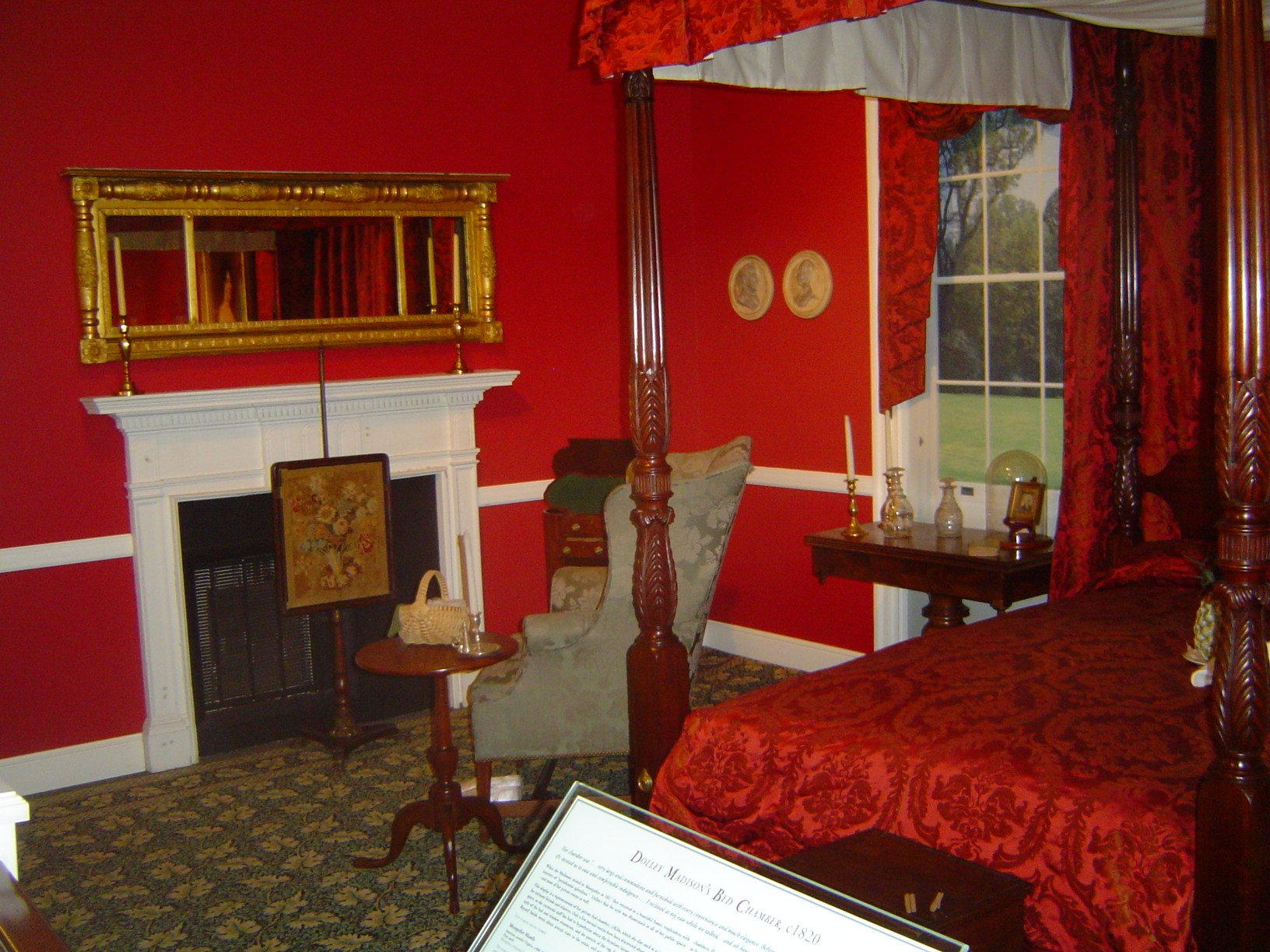 Montpelier (home of James Madison)